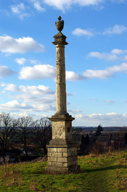 Somerby Monument. Somerby Monument, Somerby, Lincolnshire. Built in 1770 to commemorate 29 years of marriage of Edward & Ann Weston of Somerby Hall.